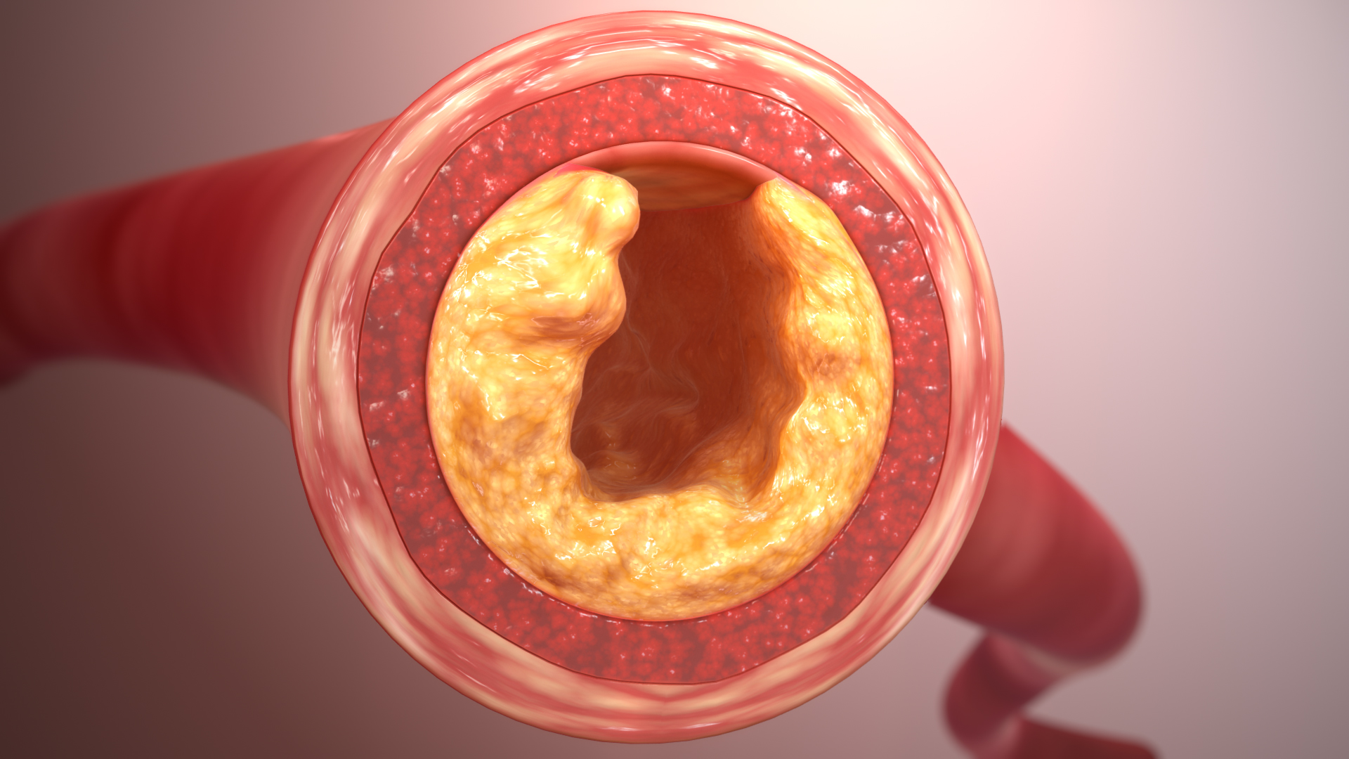 Plaque lining the intima of an artery